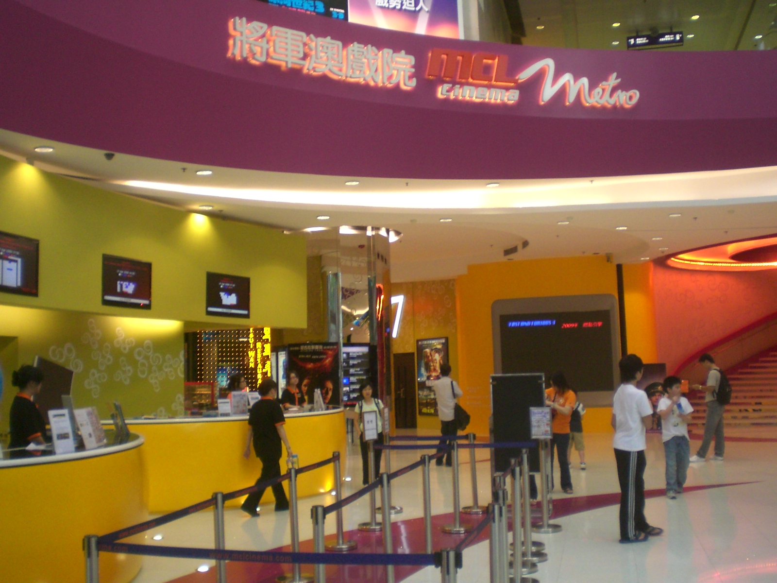 將軍澳